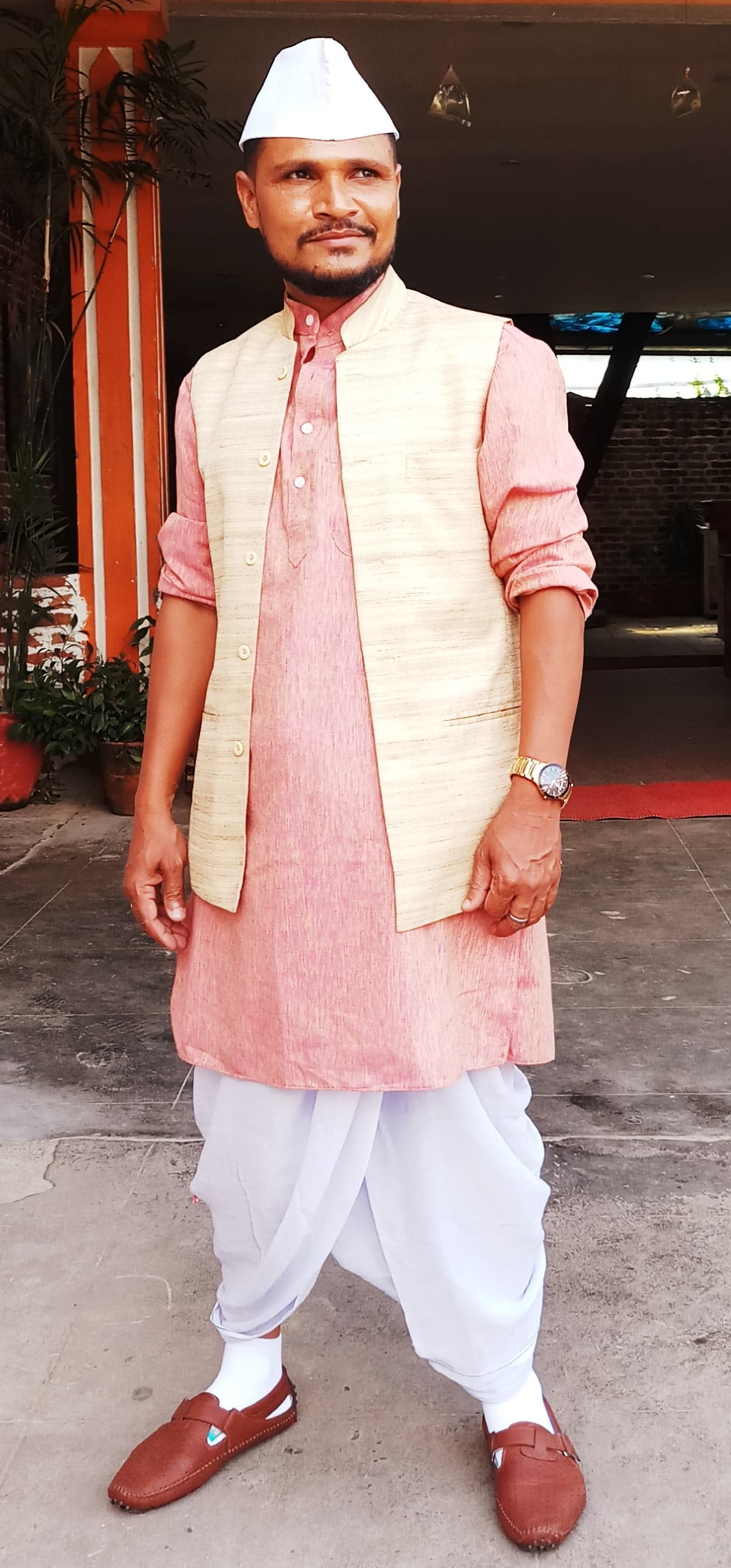 This is the image of Rabindra Jha during his movie shoot.